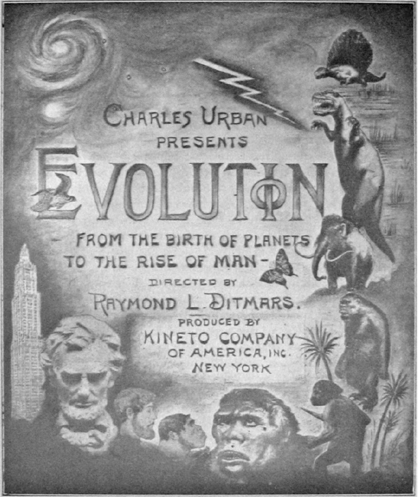 Evolution. From the Birth of the Planets to the Age of Man, promo cover